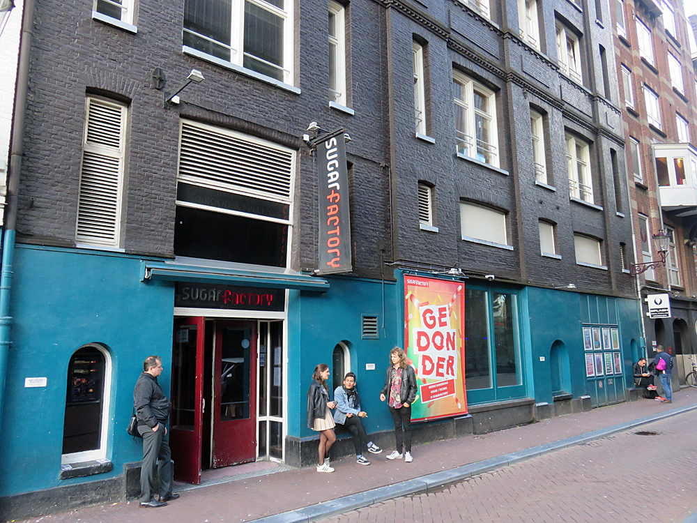 The disco and night club Sugarfactory at Lijnbaansgracht 238 in Amsterdam.